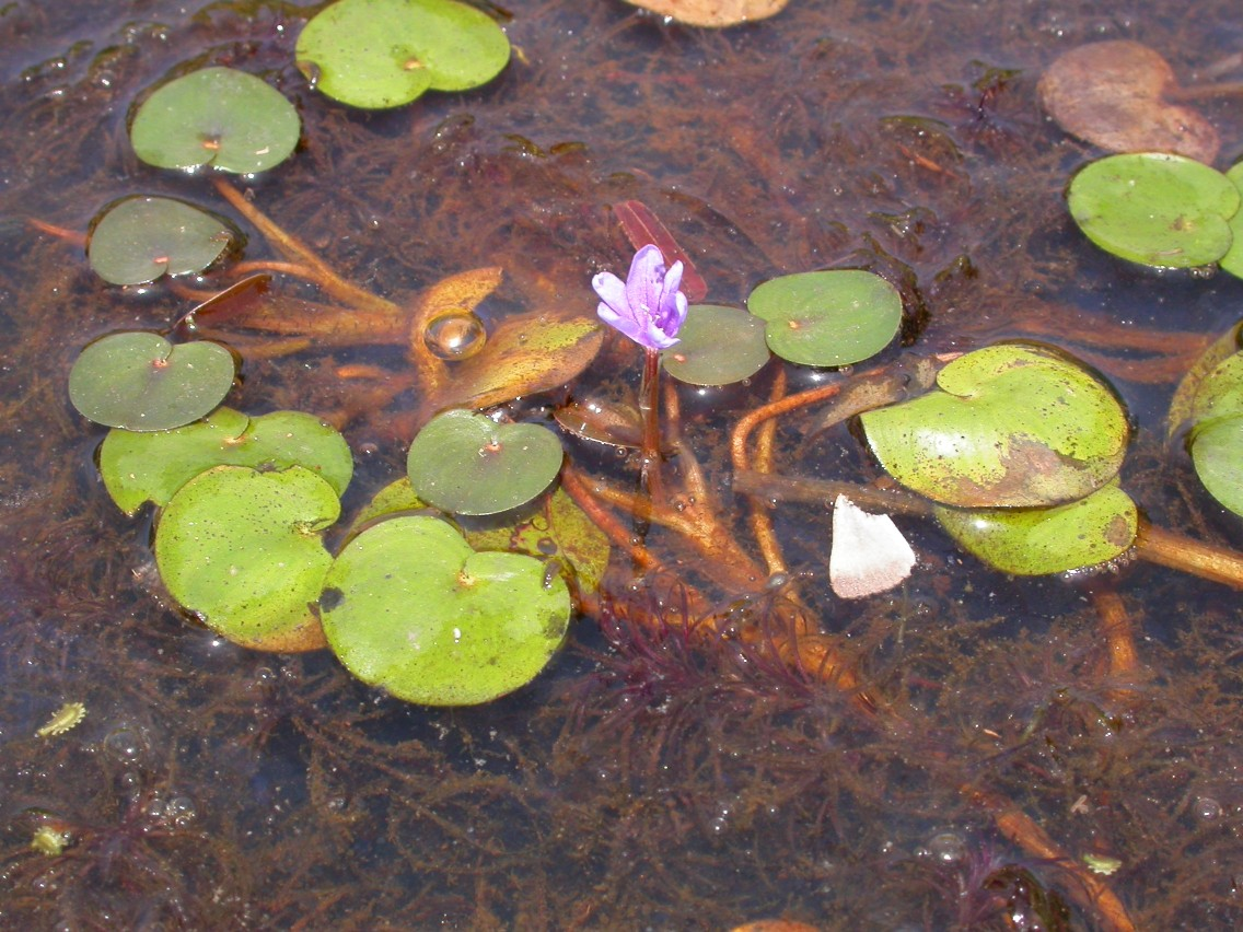 Eichhornia natans in a pond near Sapouy, Burkina Faso.